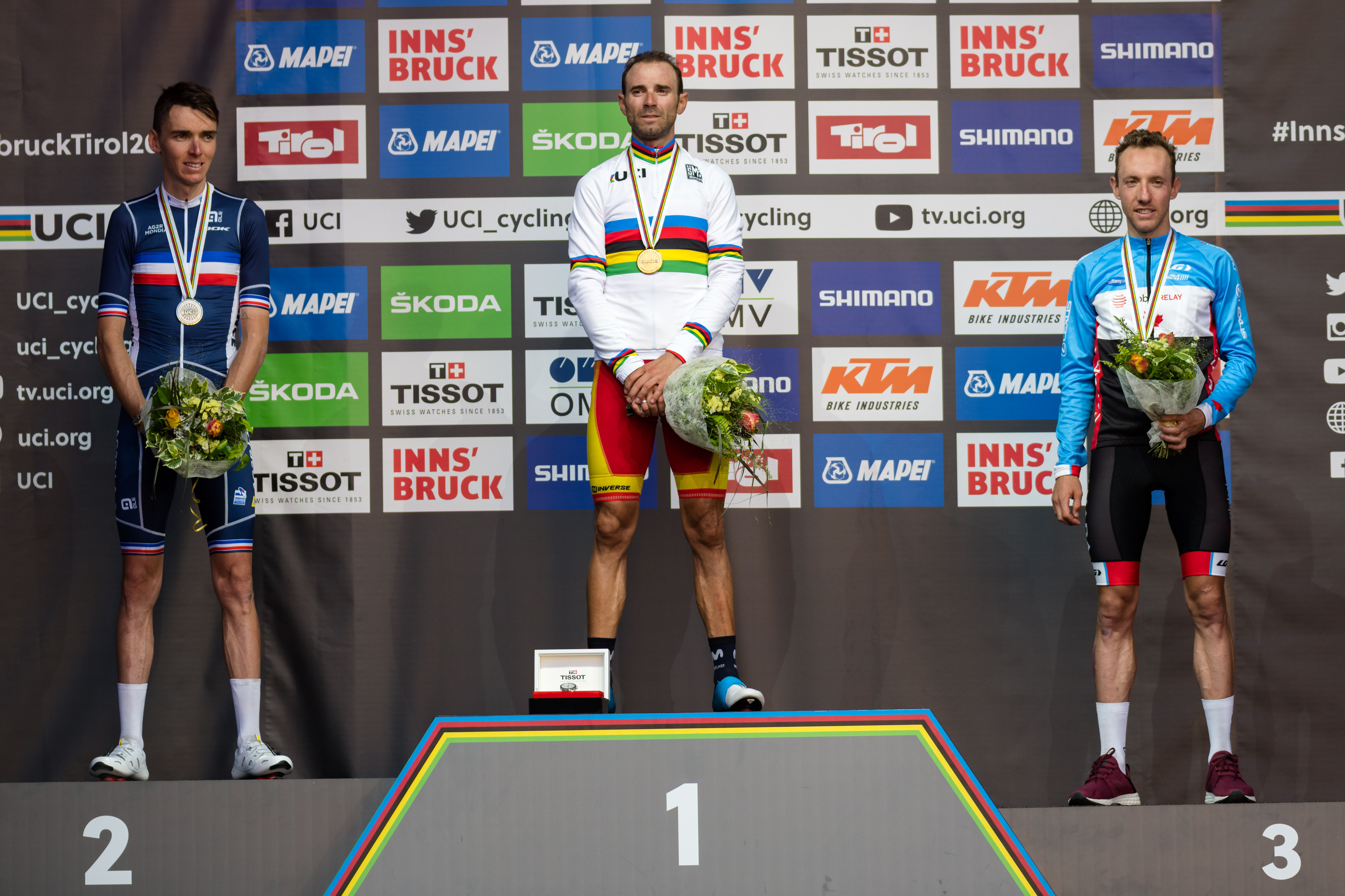 2018 UCI Road World Championships Innsbruck/Tirol Men Elite Road Race. Picture shows: Award Ceremony with Romain Bardet of France, winner Alejandro Valverde of Spain and Michael Woods of Canada